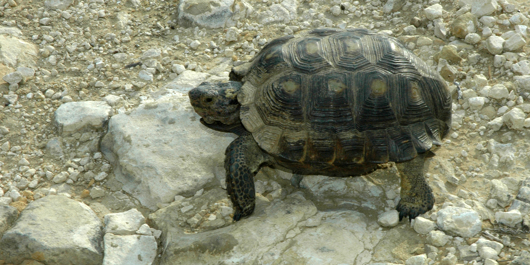 Texas Tortoise (Gopherus berlandieri), northern Tamaulipas, Mexico. Photographed on 9 July 2007 by William L. Farr.